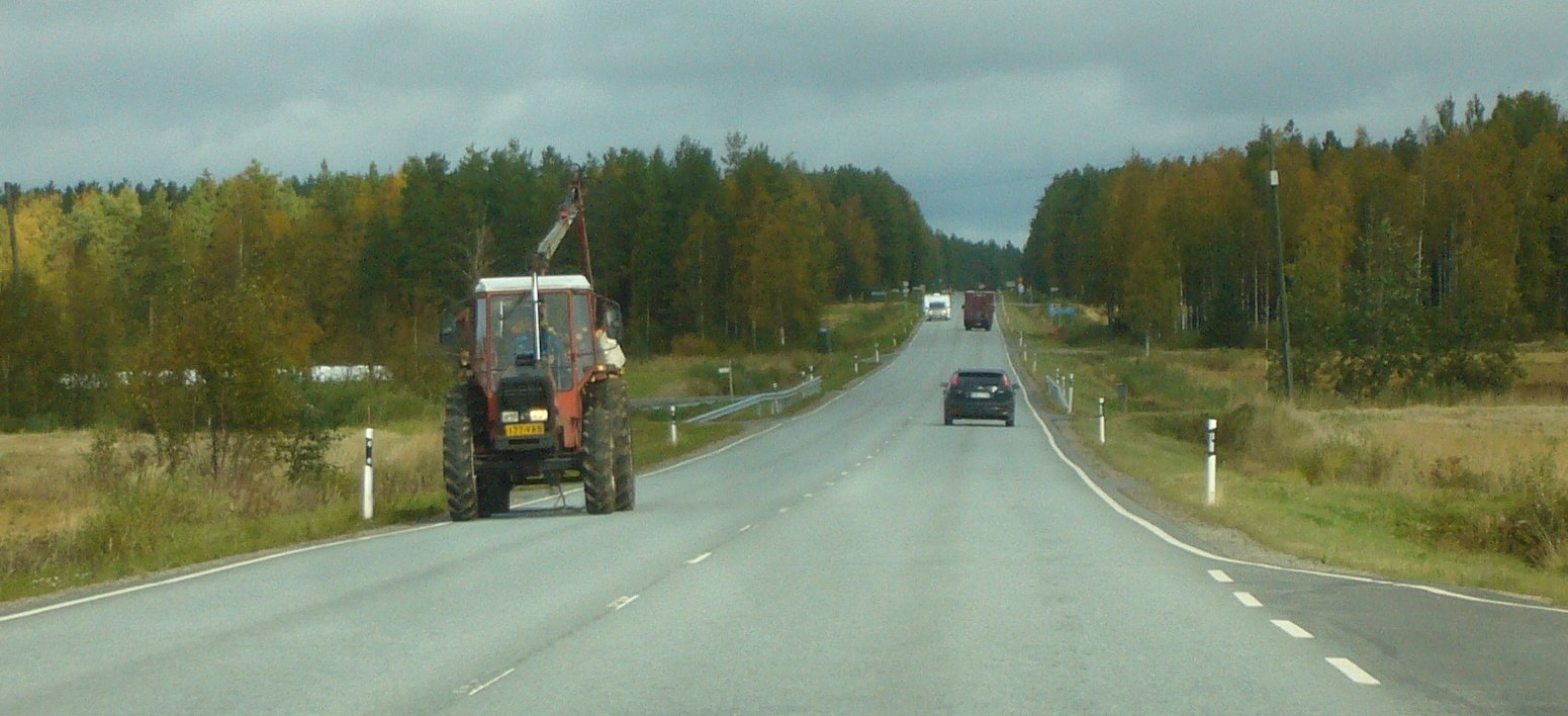 National road 67 in Äijönkylä, Kauhajoki, Finland.